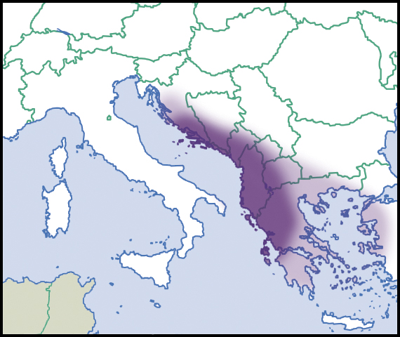 Pyramidula cephalonica (Westerlund, 1898). Distribution in Europe, scientific state of knowledge of 2012. Source description in English. Light colour indicated rare occurrences or regions where the species could eventually be expected to occur. Dark colour indicated relatively reliable occurrences, as well as regions where the species was expected to occur, and where the species was not known to be extremely rare. Dark colour indications were not necessarily based on published records. Species summary in AnimalBase